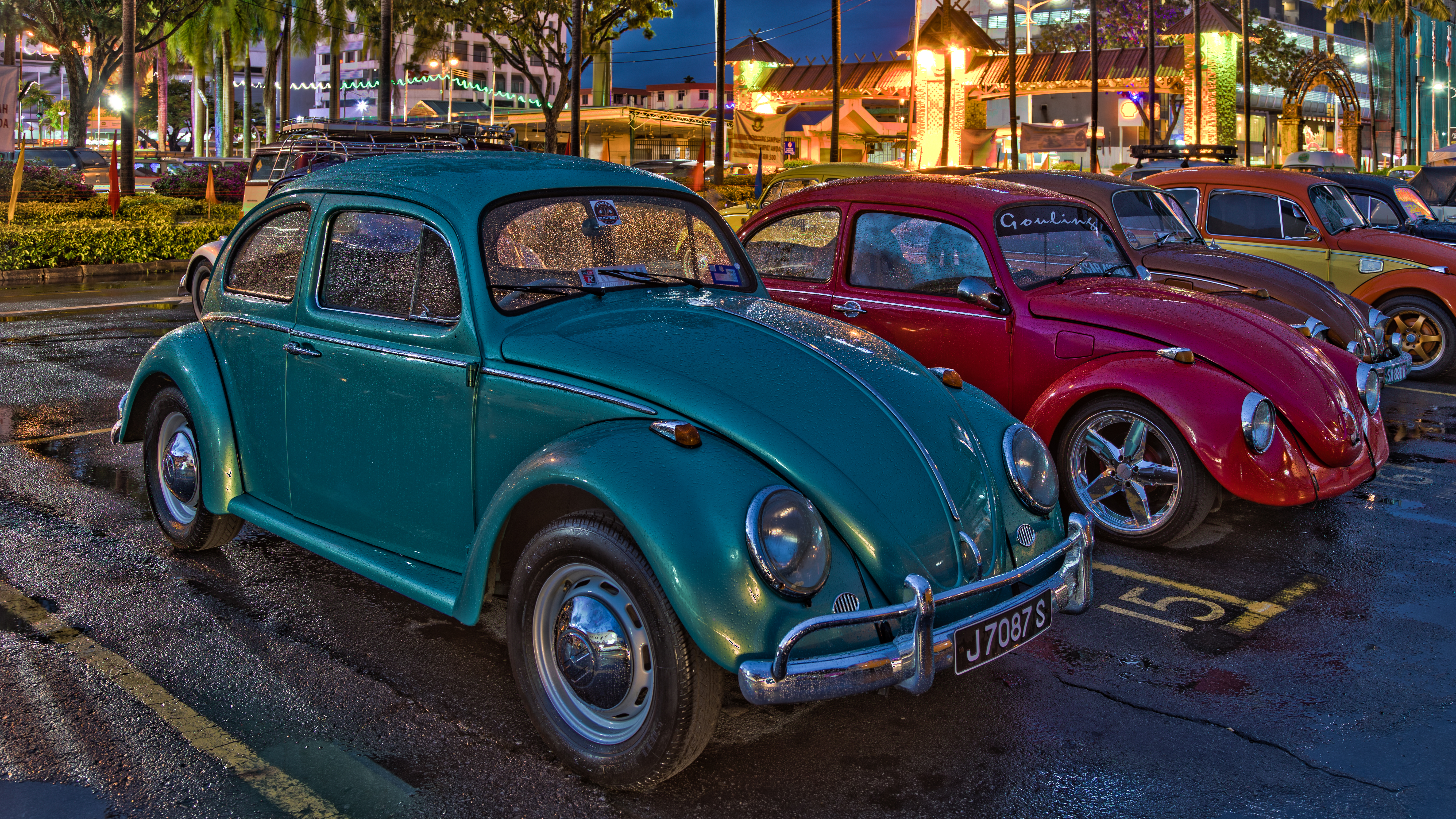 Kota Kinabalu, Sabah, Malaysia: Volkswagen Bug, exhibited at "Borneo Bug Fest 2016" at the premises of KK City Hall